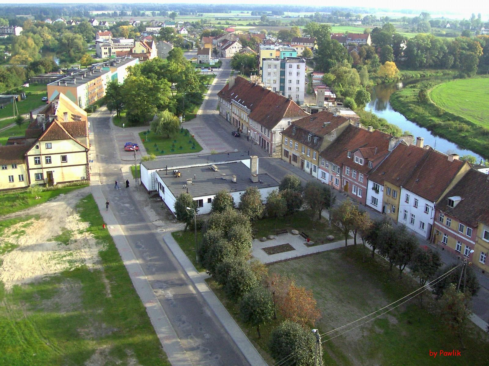 sepopol_church_tower